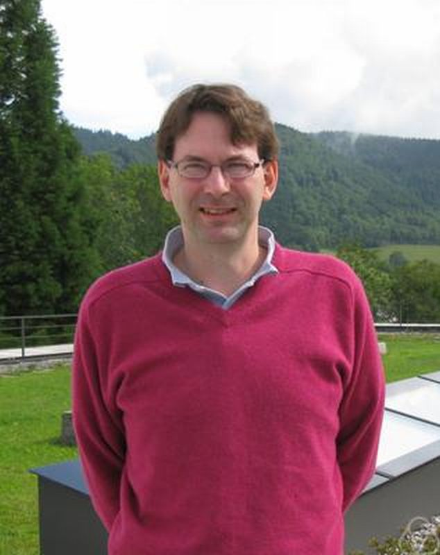 Emmanuel Kowalski, Oberwolfach 2011